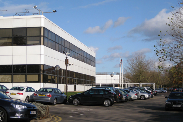 IBM Warwick Boxes, yes, but in the sleekest of wrappers.